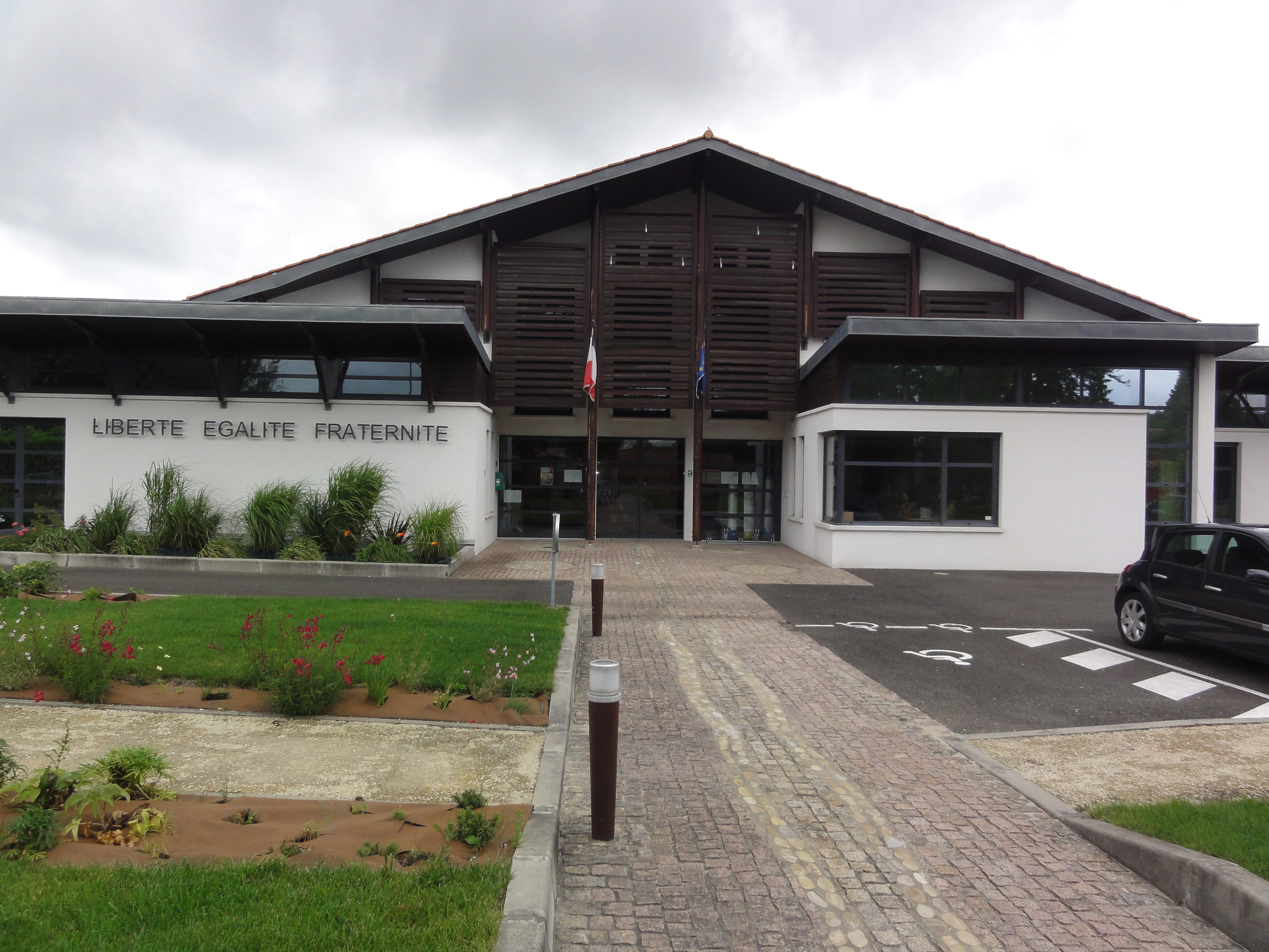 Angresse (Landes) mairie